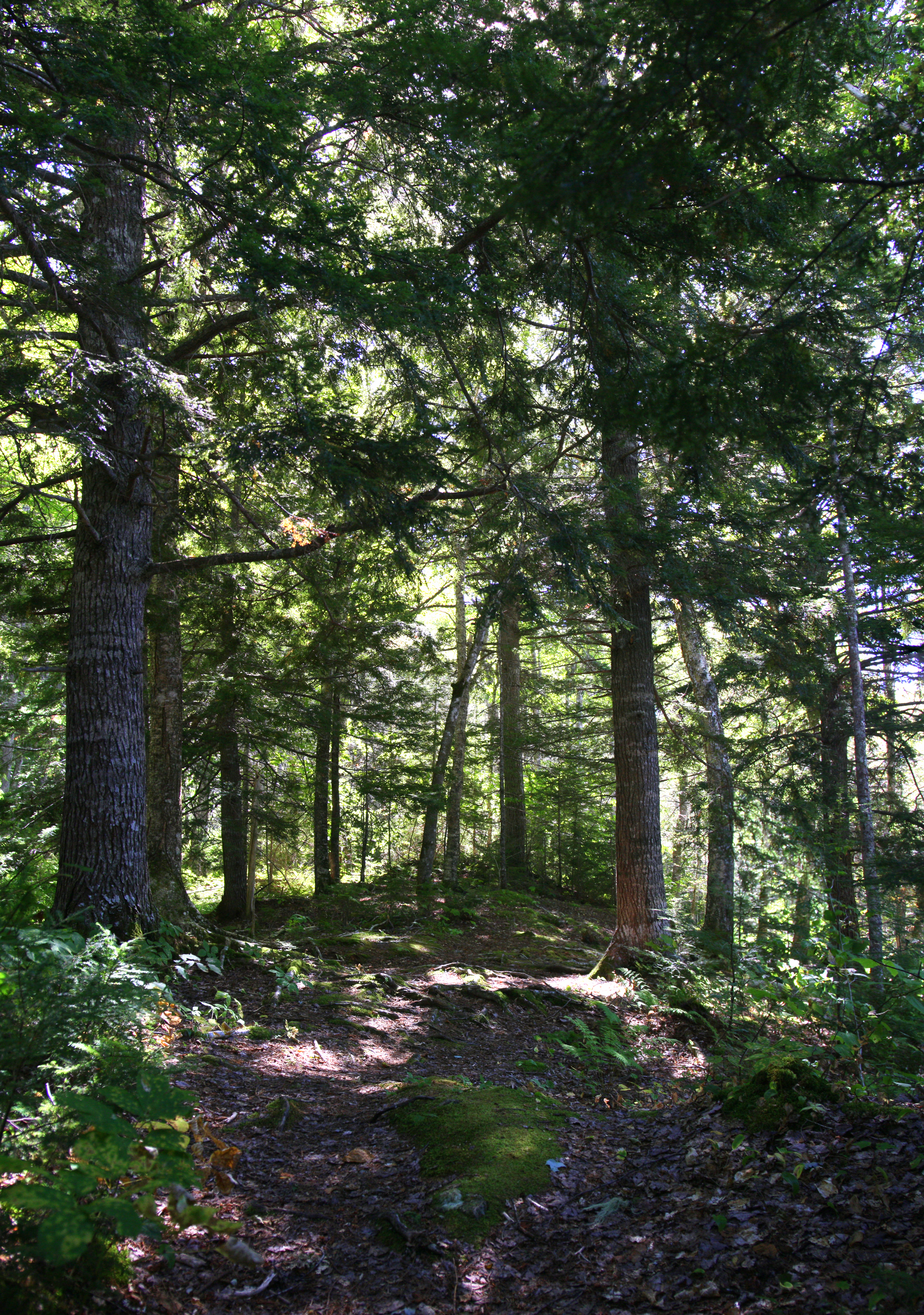 This is a small grove of hemlock trees along the Ben Eoin Provincial Park Trail. Ben Eoin Provincial Park is a small secluded park on an old farm against hardwood-covered hills in the community of Ben Eoin, Nova Scotia, on the south side of the East Bay of the Bras d'Or Lake, Cape Breton Island, Canada. This picnic and hiking park is managed by the provincial Department of Natural Resources and is situated on a heavily wooded 225 acres (91 ha) parcel of Crown land. The Ben Eoin Trail (2.2 kilometres (1.4 mi) return) starts at the Ben Eoin Provincial Picnic Park. A hiker’s sign indicates the trailhead in the park. A very nice steady hike that climbs along a well-worn path. It climbs uphill through large and old Birch and Beech Trees. The trail leads to a well cleared look-off of solid ground and large flat stone on a ridge of the East Bay Hills with a panoramic view of the East Bay of the Bras d'Or Lake 165 metres (541 ft) below.